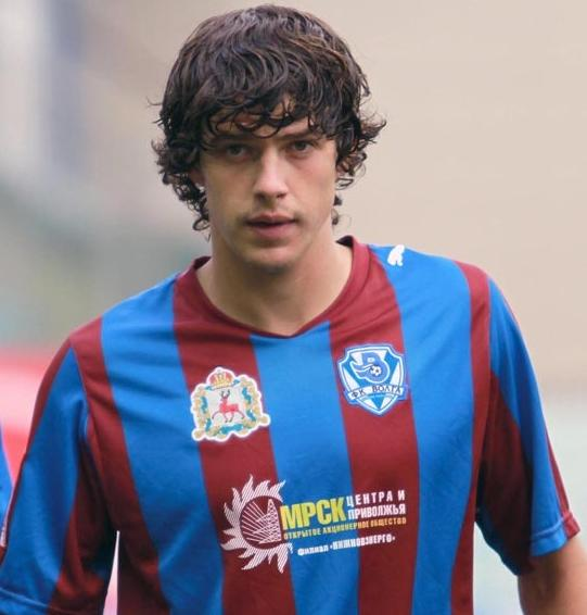 Andrei Buivolov